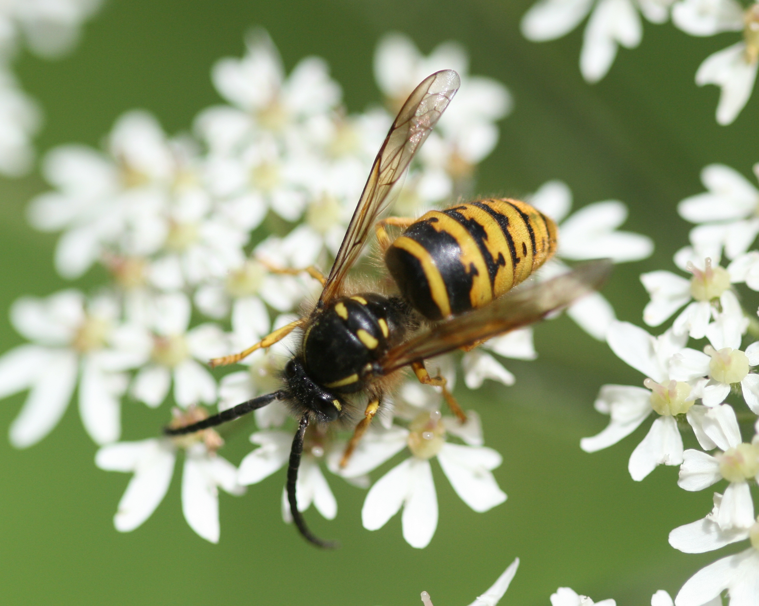 Saxon Wasp. Humbie, Scotland.